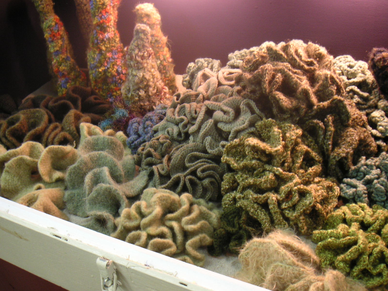 Hyperbolic crochet kelp garden by the Institute For Figuring at the Los Angeles County Fair. Sept 2006. The installation is part of the Fair Exchange show at the worlds biggest celebration of prize-winning animals andhome-baked wonders. A book with Instructions for making these models is available at the IFF website: photo by the IFF